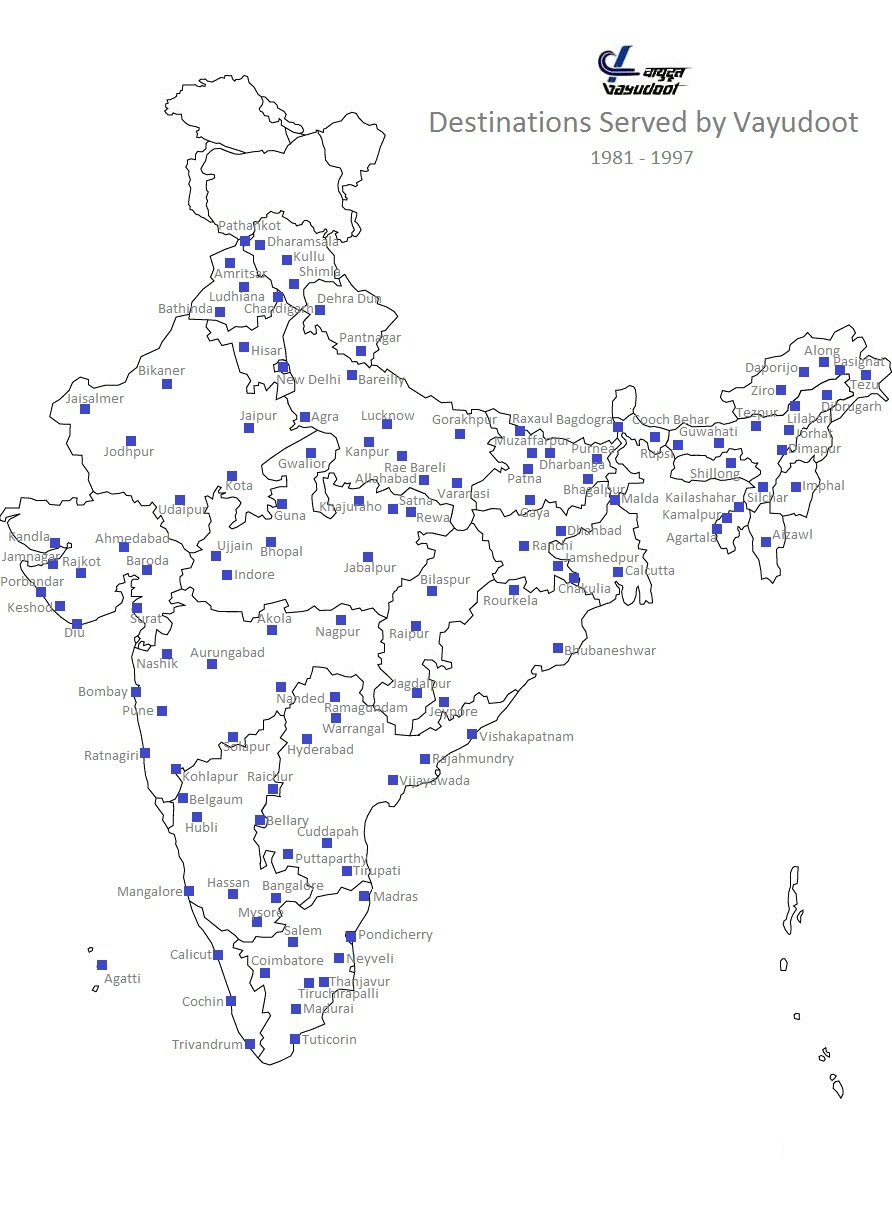 A map of all destinations served by Vayudoot during its existence from 1981 to 1997.